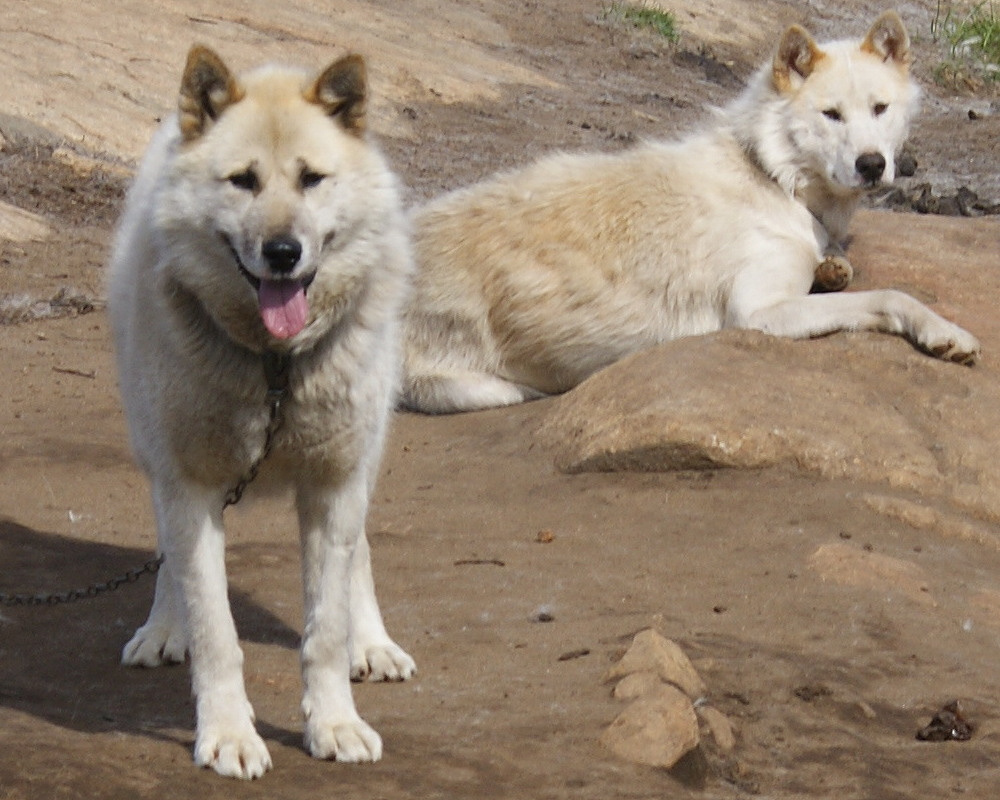 Chained Greenland dogs in Sisimiut, Greenland.